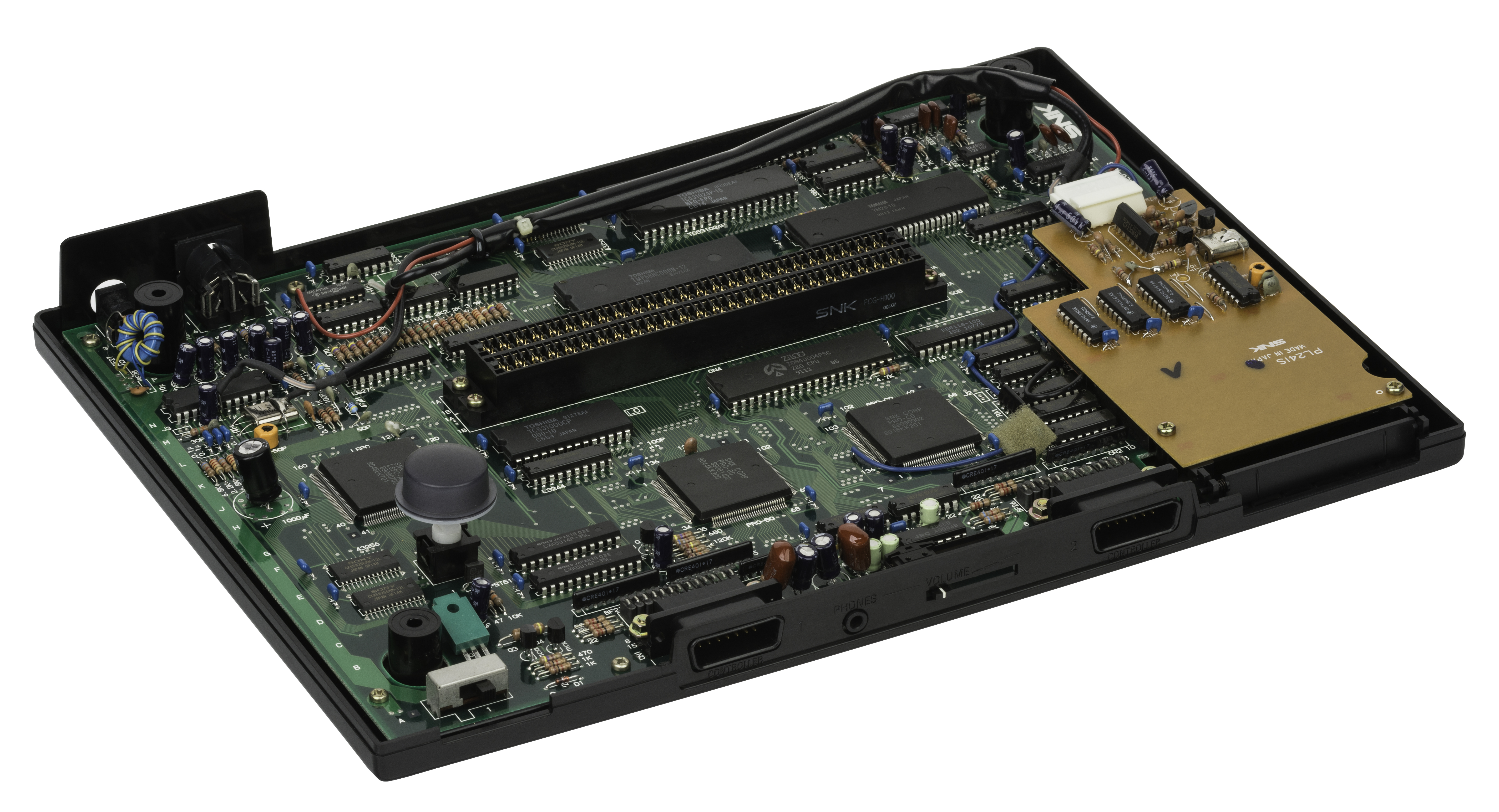 The motherboard for the Neo Geo AES (Advanced Entertainment System), a video game console released in the US in 1991. The Neo Geo AES was unique in that it was a niche system, marketed toward high-end consumers who wanted to play true arcade games in their home. The AES is merely a repackaged version of their Neo Geo MVS arcade system, where swappable games are stored on giant cartridges. The console was expensive, as were the games themselves, which could go for hundreds of dollars. The motherboard for the Neo Geo AES is powered by a Motorola 68000 running at 12 MHz, and also features a Zilog Z80 as a co-processor. Other chips include: SNK LSPC2-A2 SNK PRO-B0 SNK PRO-A0 SNK PRO-C0 Yamaha YM2610 Toshiba TC531024P-15 Toshiba TC531000CP